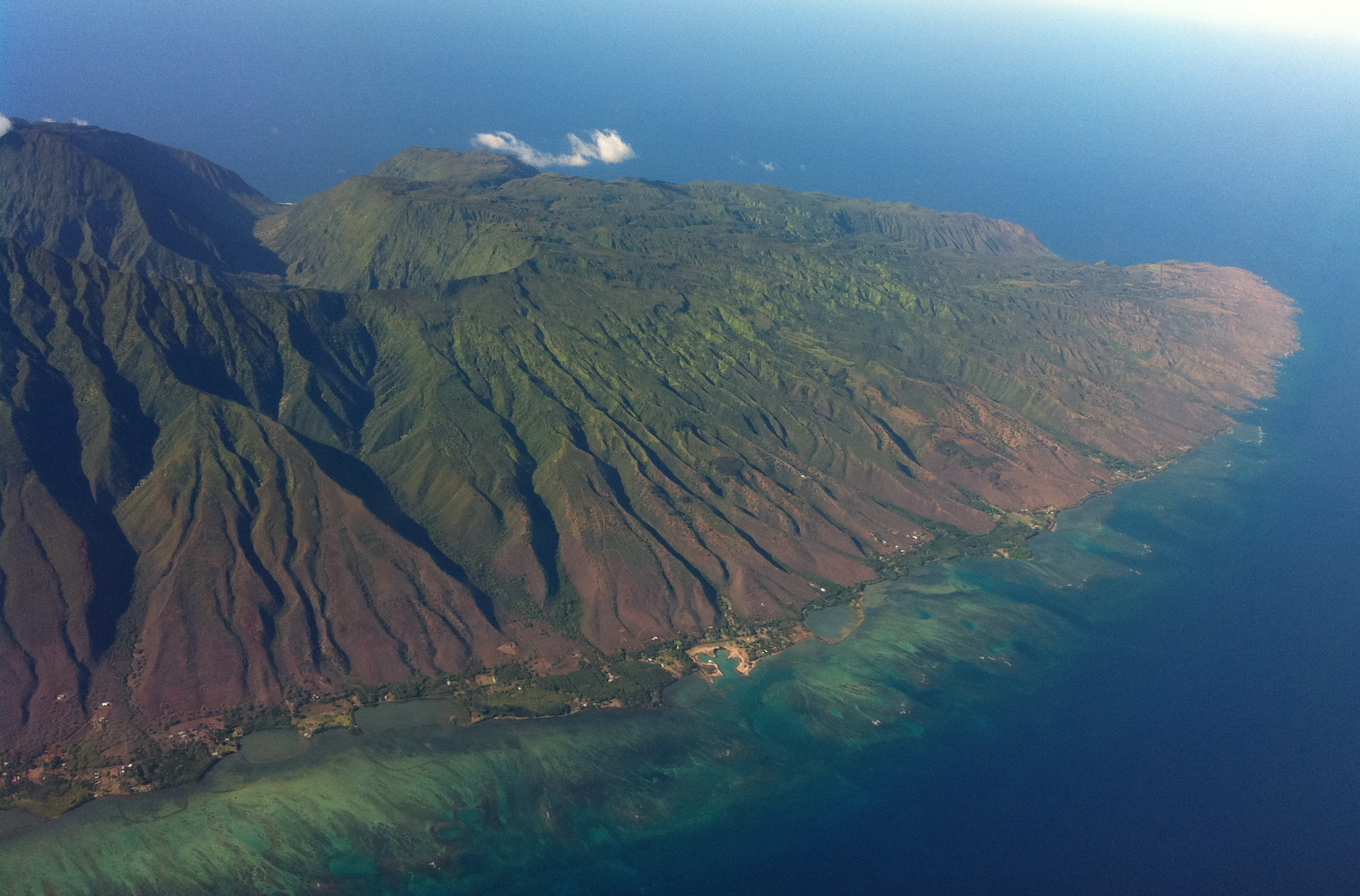 Aerial view of the East side of Molokai, Hawaii